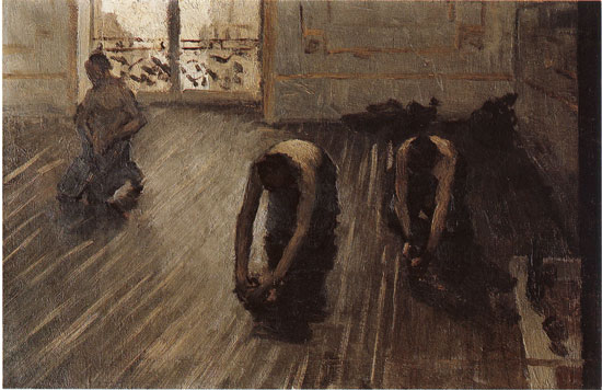 Raboteurs de parquet, study